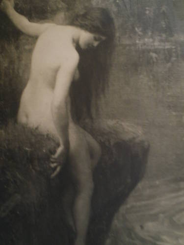 The Bather